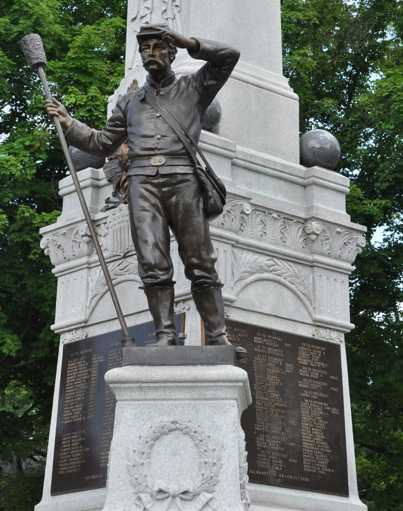 The Civil War Memorial in Webster, Massachusetts. Detail showing an artilleryman.